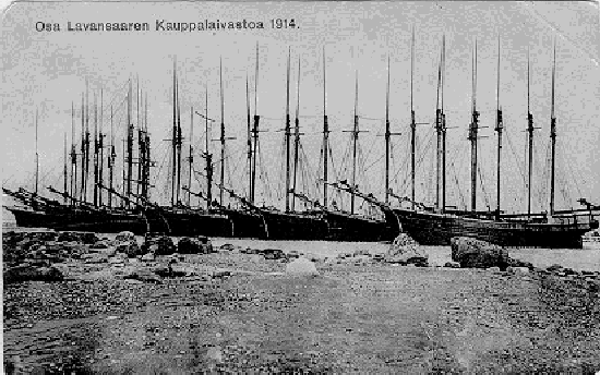 Trade fleet of Lavansaari island in 1914